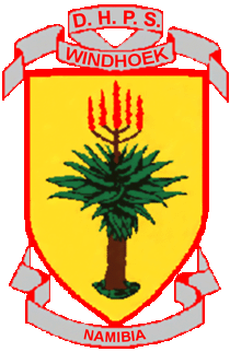 Coat of Arms of the German Higher Private School in Windhoek Namibia.